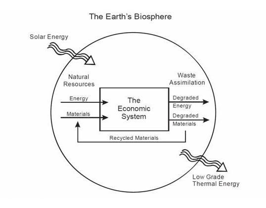 Diagram describing the flow of natural resources through the economy: Valuable resources are procured from nature by the input end of the economy; the resources flow through the economy, being transformed and manufactured into goods along the way; and invaluable waste and pollution eventually accumulate by the output end. Recycling of material resources is possible, but only by using up some energy resources as well as an additional amount of other material resources; and energy resources, in turn, cannot be recycled at all, but are dissipated as waste heat.